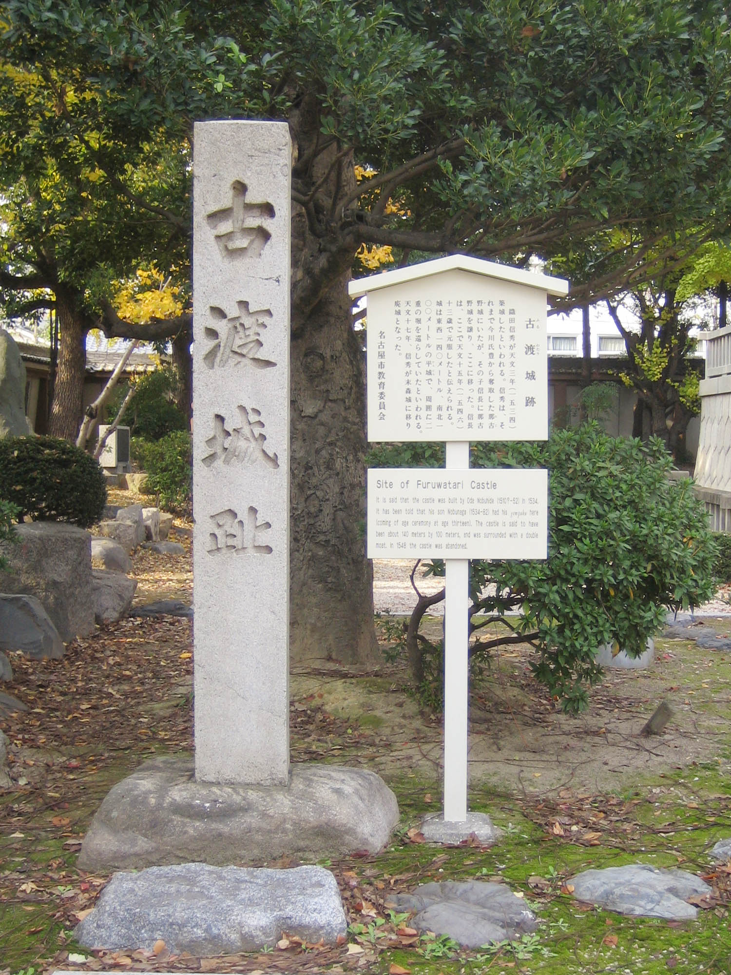 Site of Furuwatari Castle (古渡城), in the branch of Higashi-Honganji Temple in Nagoya (東本願寺名古屋別院 Higashi-Honganji Nagoya Betsuin)